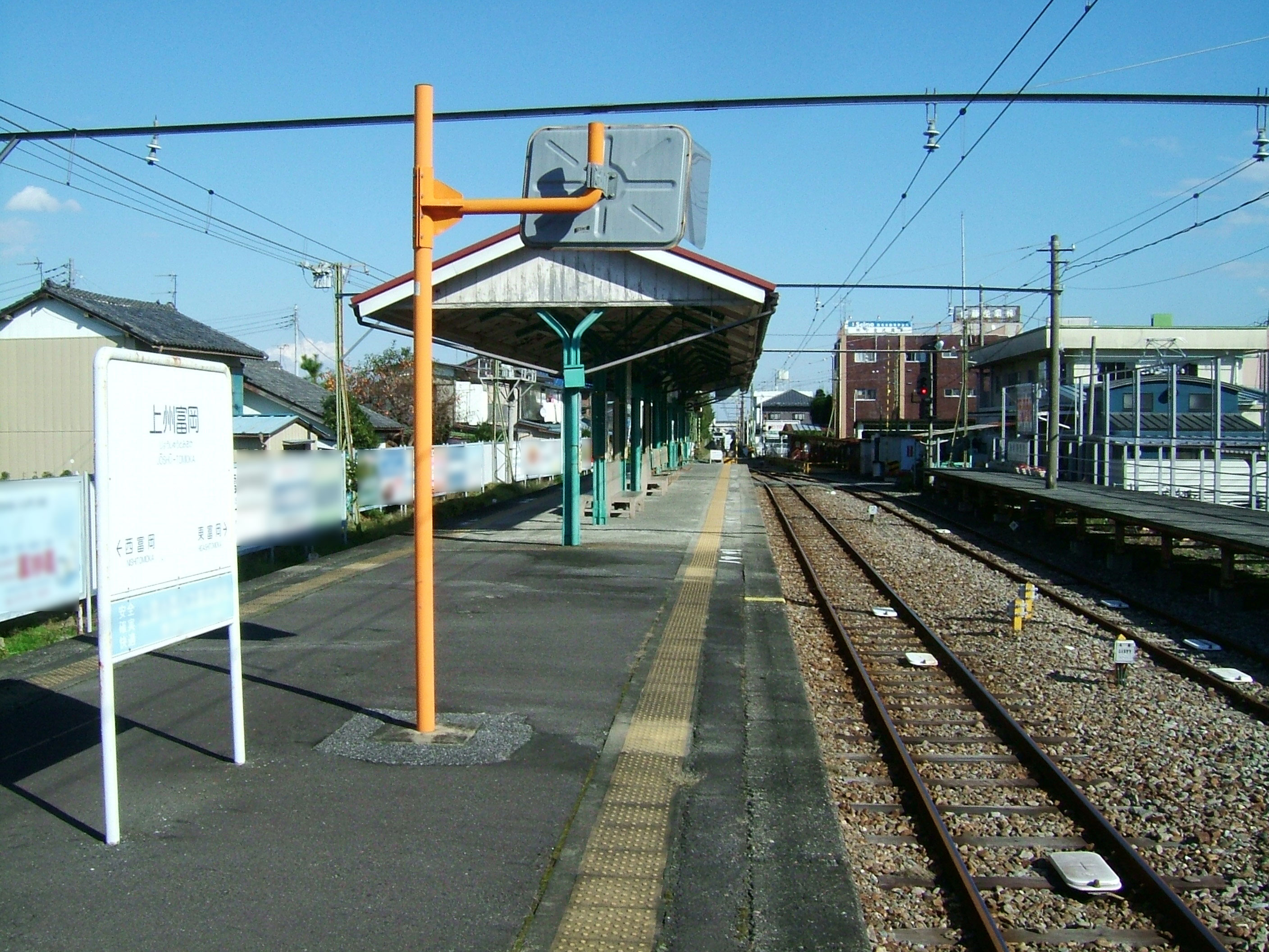 Jōshū-Tomioka Station platform (Jōshin Dentetsu Jōshin Line)